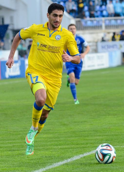 Georgy Gabulov playing for FC Rostov.